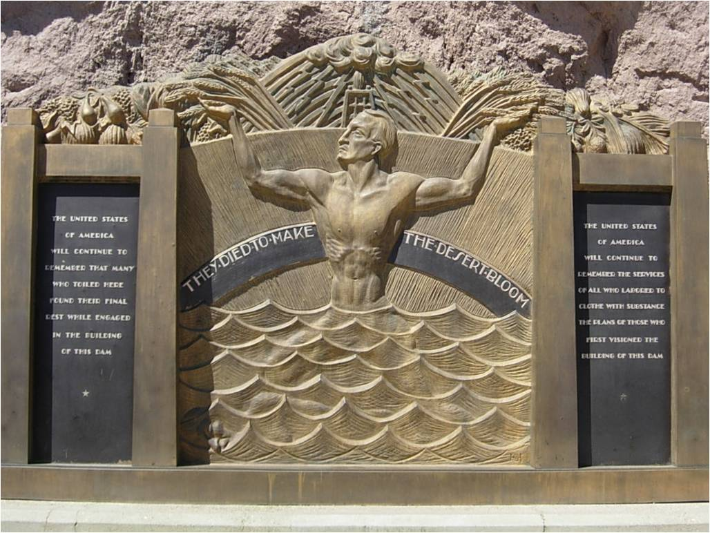 Oskar Hansen's memorial on the Nevada side of Hoover Dam.